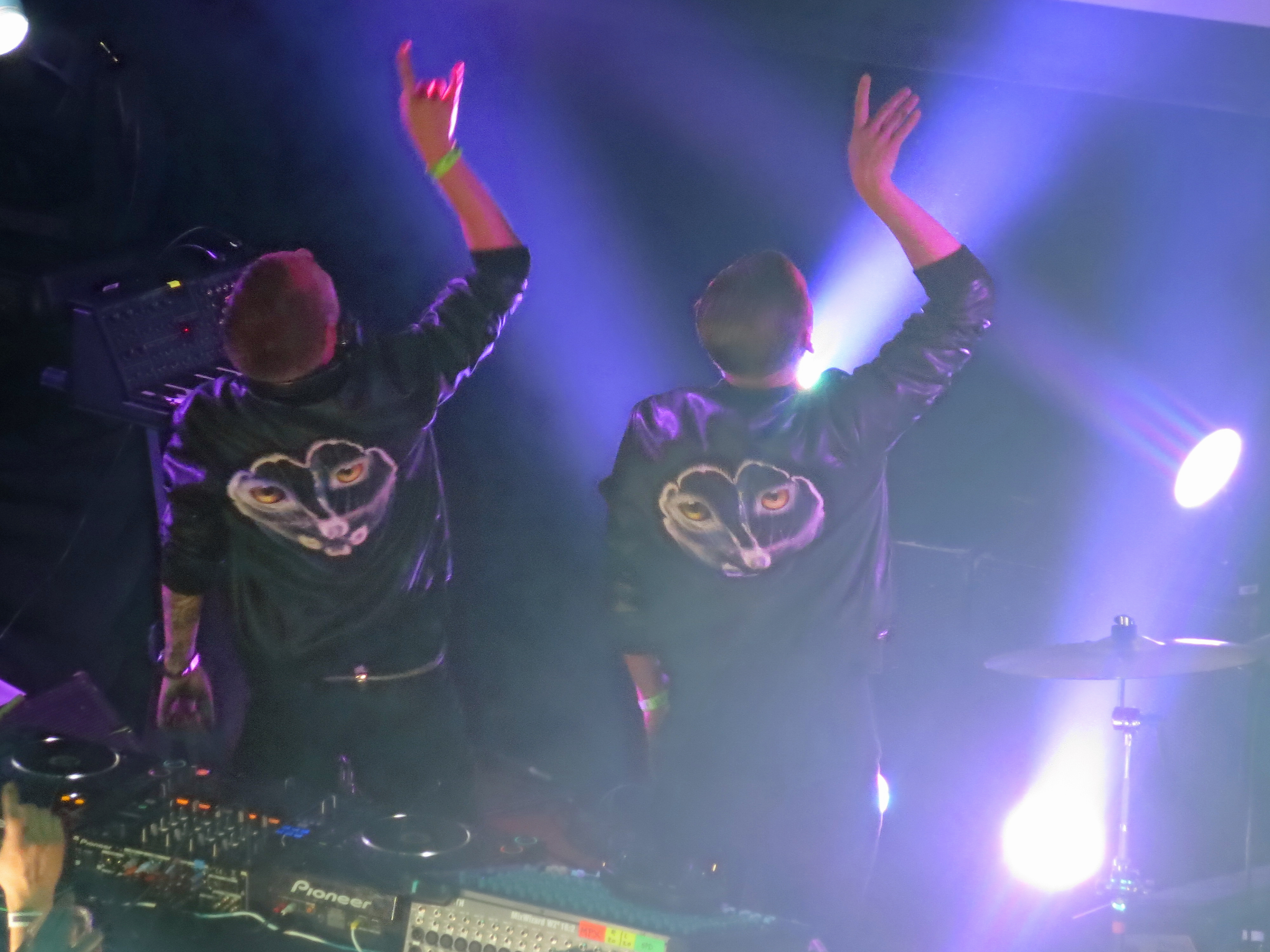 Galantis @ Lincoln Hall, Chicago 4/29/2014